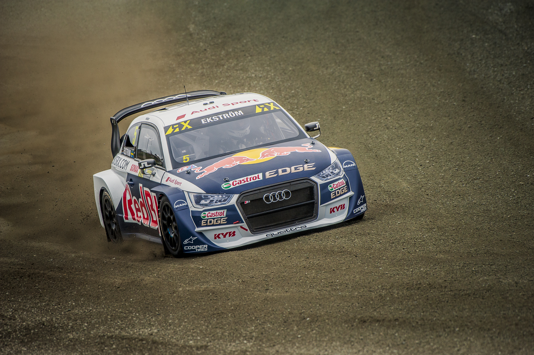 2018 FIA World Rallycross Championship // Round 5, Hell, Norway // Credit: EKS Audi Sport